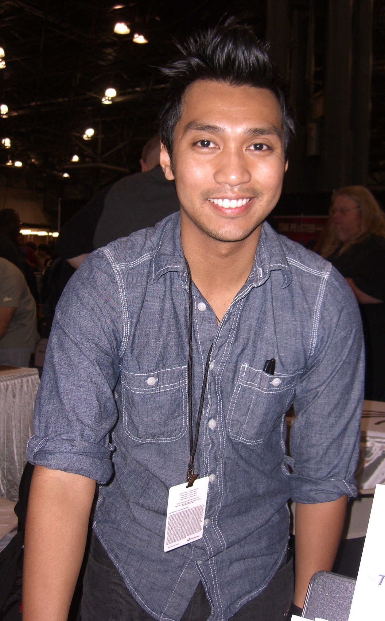 Comic book creator Francis Manapul, at the New York Comic Convention in Manhattan, October 10, 2010. Photo by Luigi Novi. This photo may be used, modified and published for any purpose, only if a easily visible credit to the photographer is placed near the photo in each instance in which it is used. (See licensing information below.) Publication of this photo without this proper attribution constitute copyright infringement. For more information on my photos, you can contact me here.